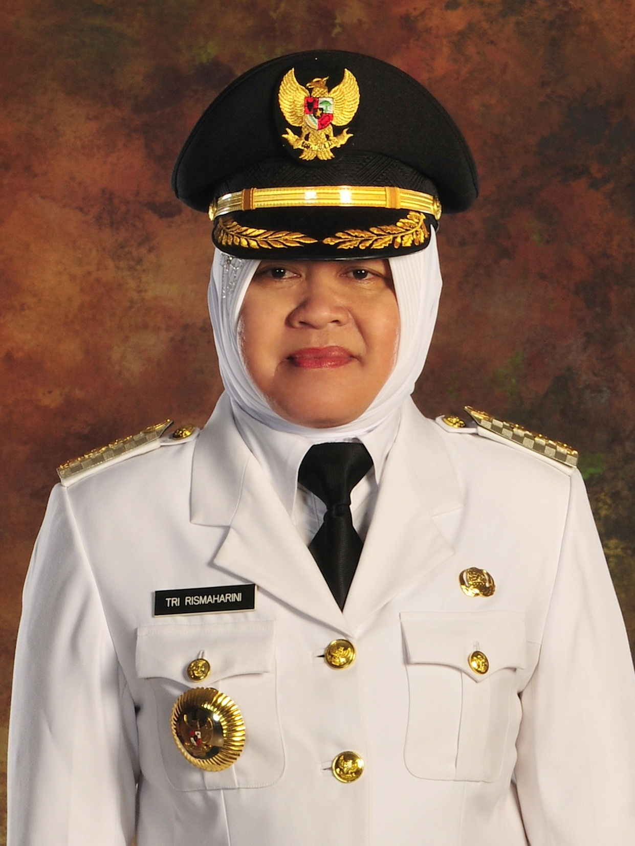 Official portrait of Tri Rismaharini, 23rd mayor of Surabaya since 2010Bahasa Indonesia: Wali Kota Surabaya ke-23, Tri Rismaharini